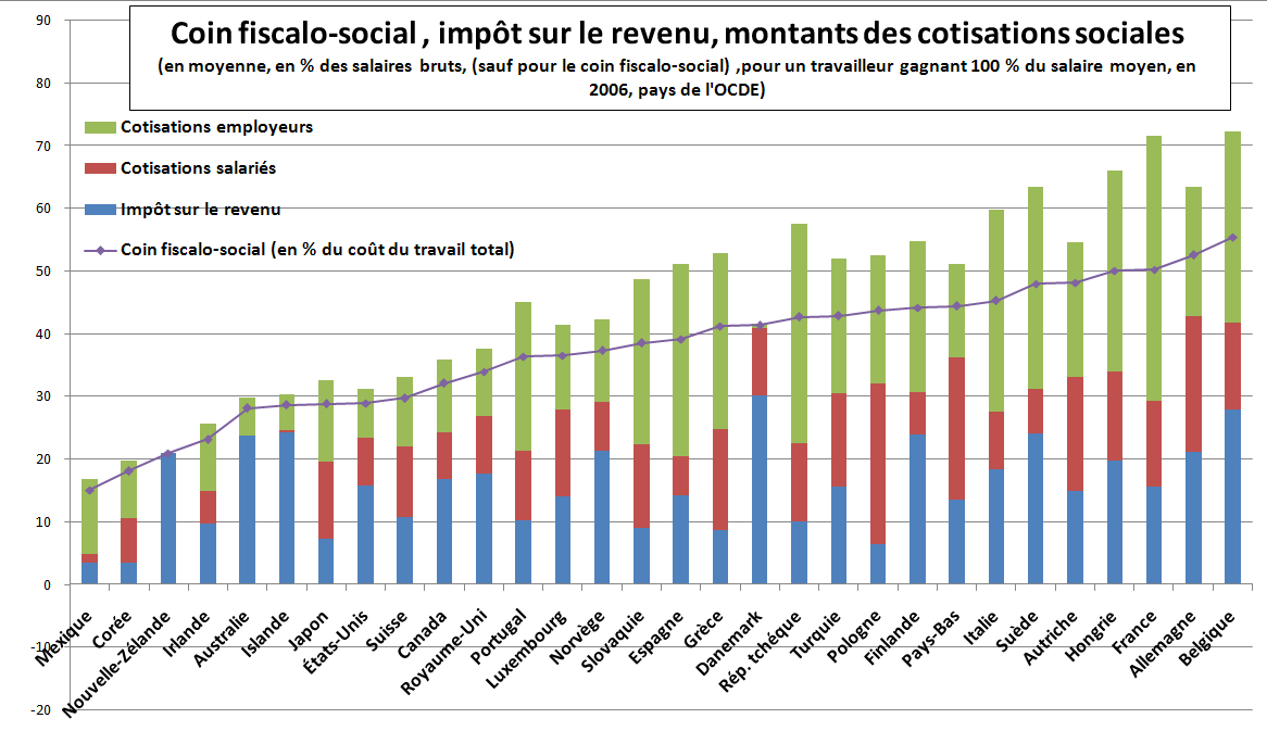 Total tax wedge in OECD countries in 2006